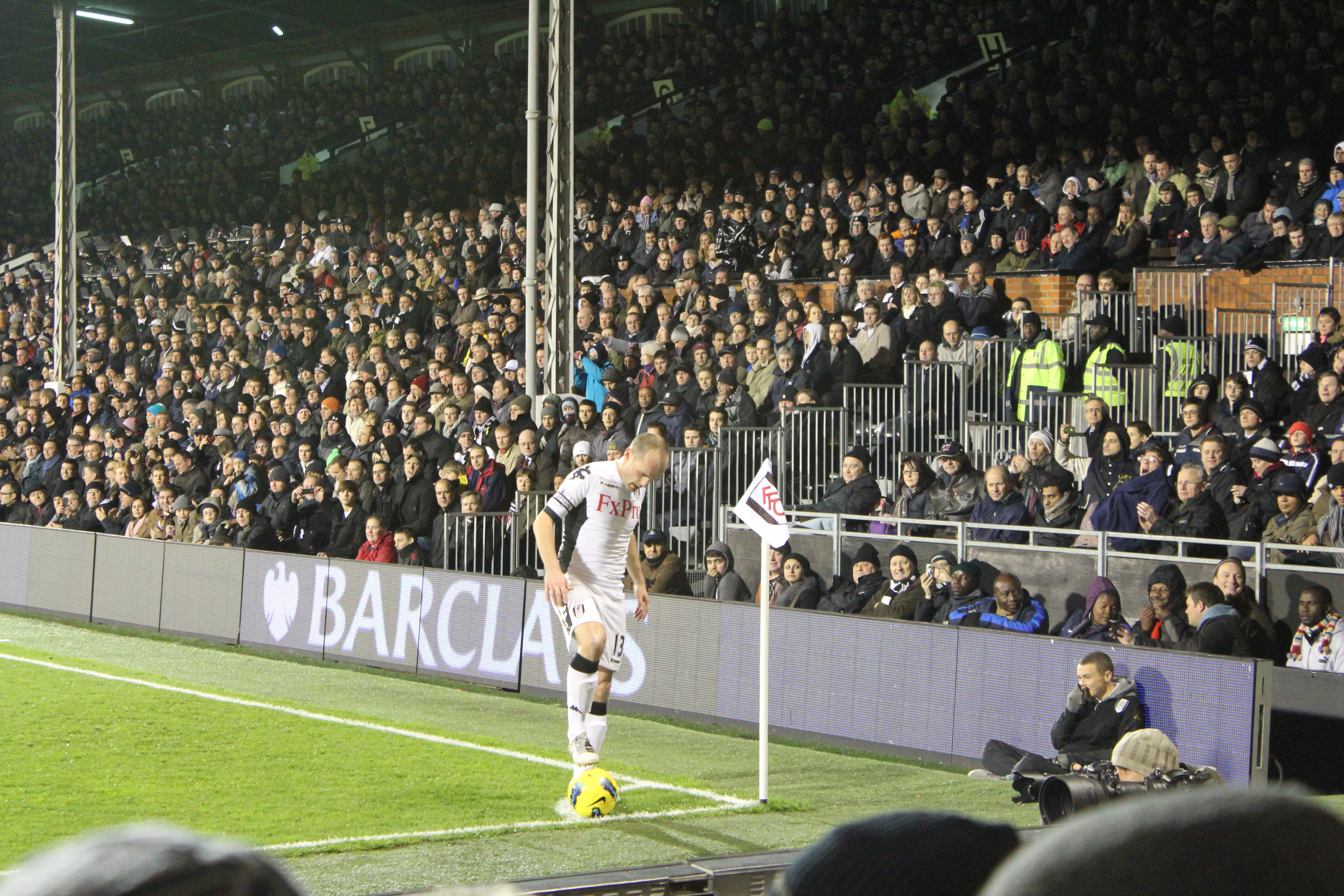 Murphy preparing to take a corner against one of his former clubs, Liverpool